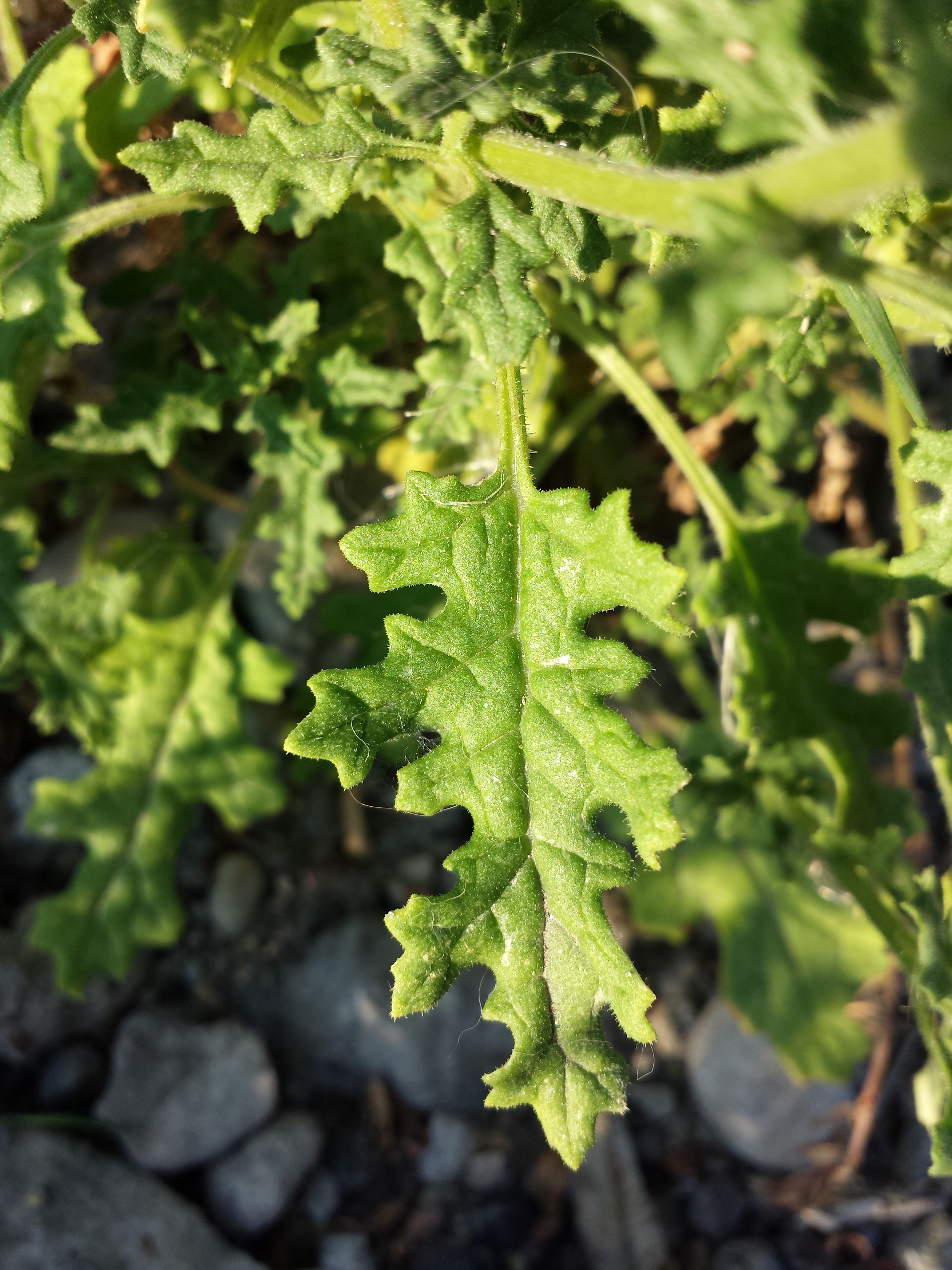 Leaf Taxonym: Dysphania botrys ss Fischer et al. EfÖLS 2008 ISBN 978-3-85474-187-9 Location: Bruckhaufen, Vienna-Floridsdorf - ca. 160 m a.s.l. Habitat: stony rudeal area